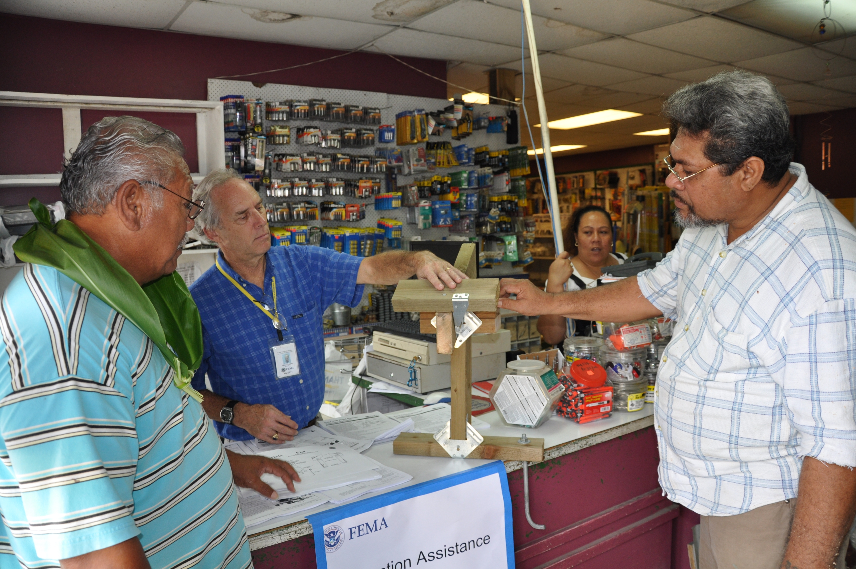 Tafuna, AS, December 14, 2009 -- David Kulberg, FEMA Mitigation Specialist, explains "continuous load path" construction technique to build strong, earthquake and wind-resistant dwellings. Anufe Lavatai, right, and Faitio Faatea, left, customers of C.B.T. Ho Ching & Co., listen while cashier Tulai Lilomaiava looks on. FEMA/Richard O'Reilly.